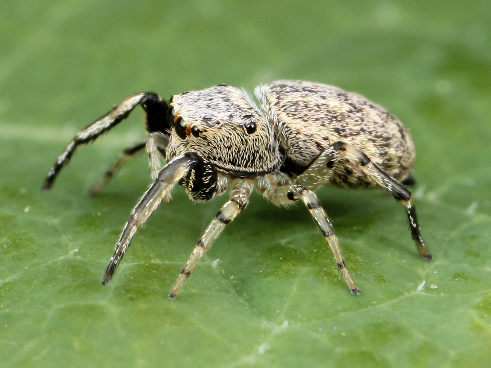 Female Zygoballus rufipes jumping spider found in northern Laurens County, South Carolina.